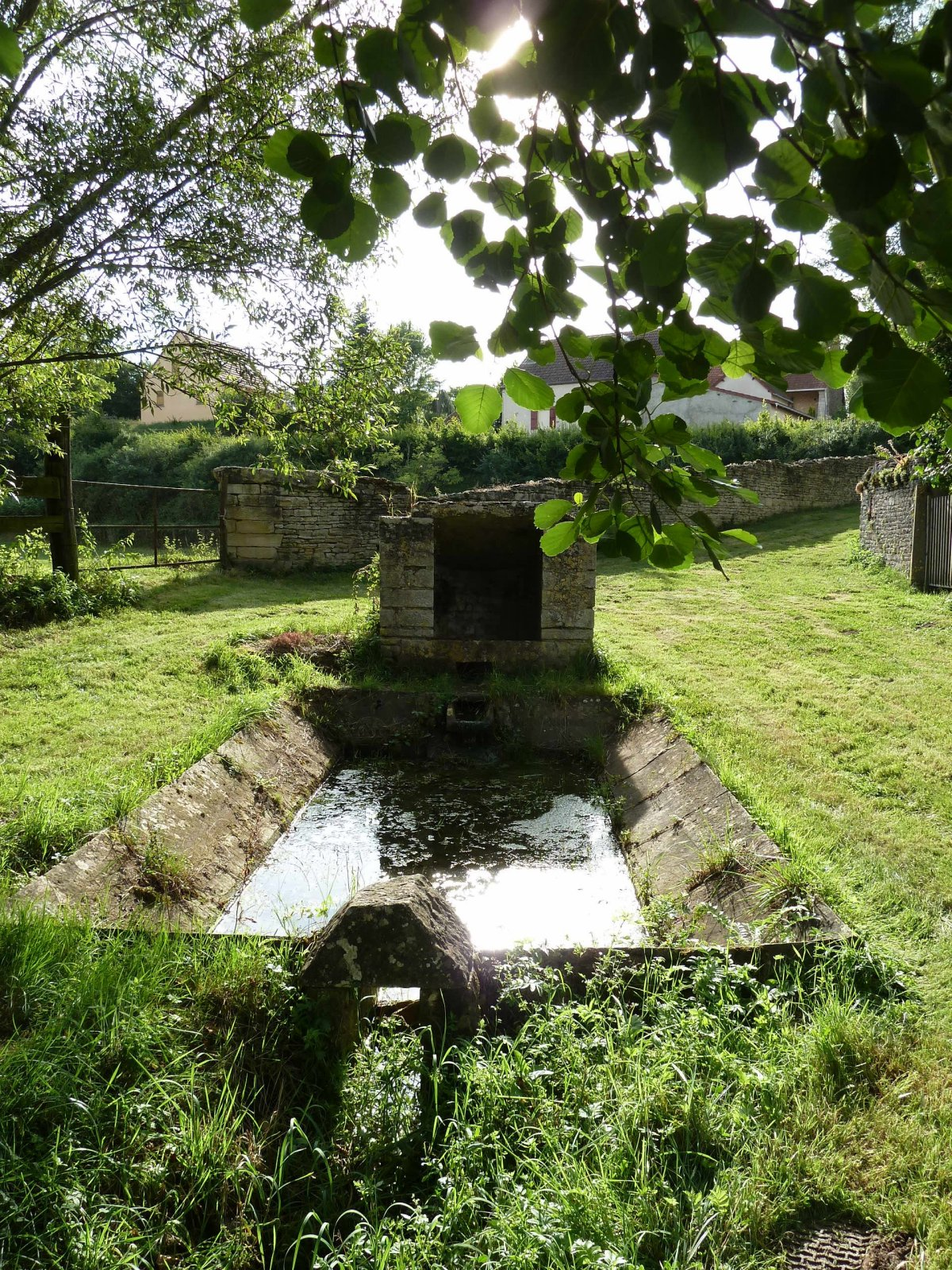 The Wash House, Savianges France